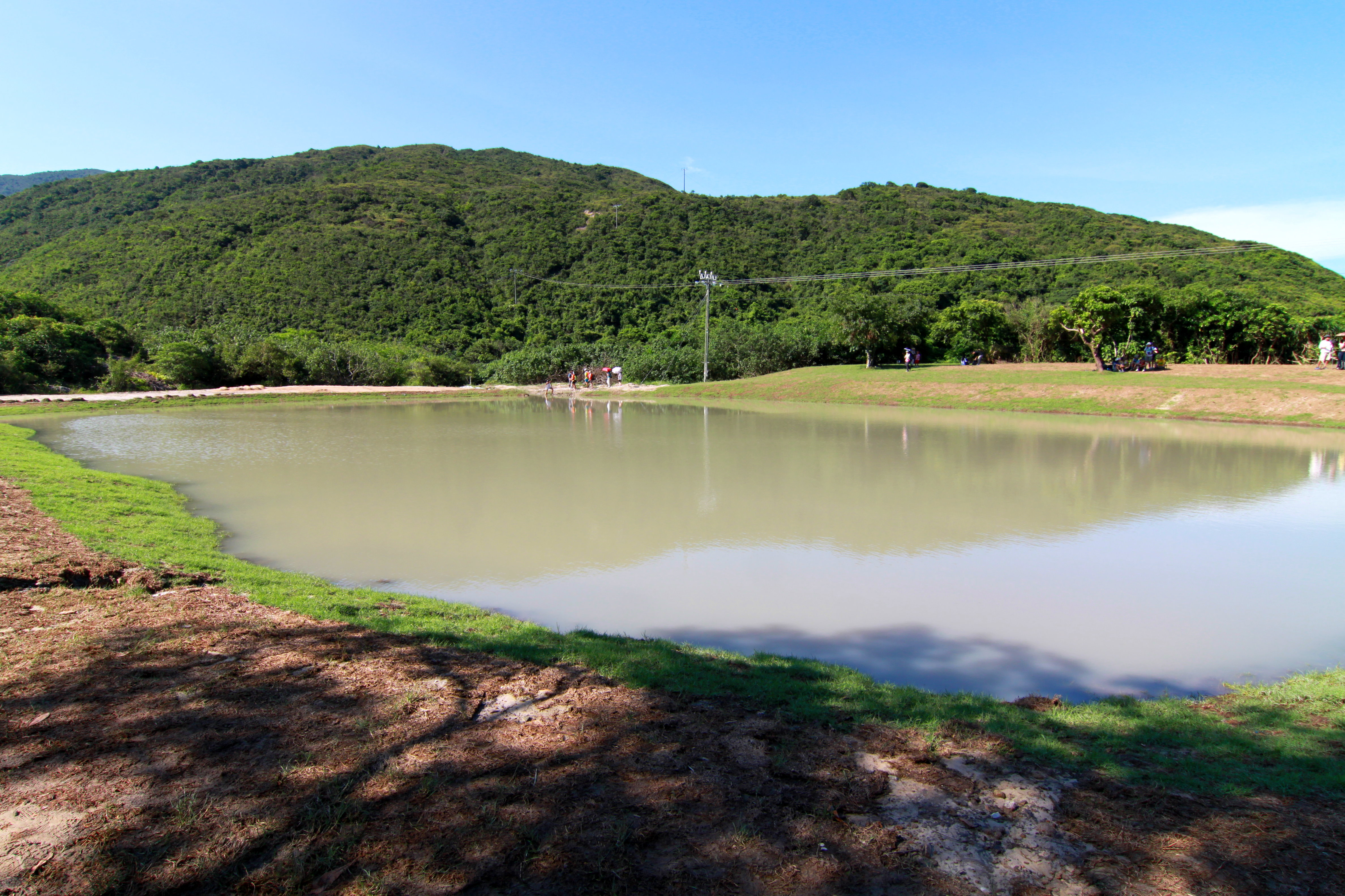 Tai Long Sai Wan Destruction